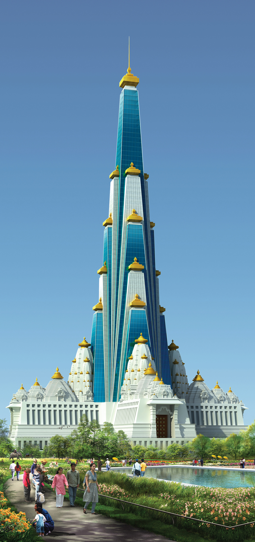 Render of Temple